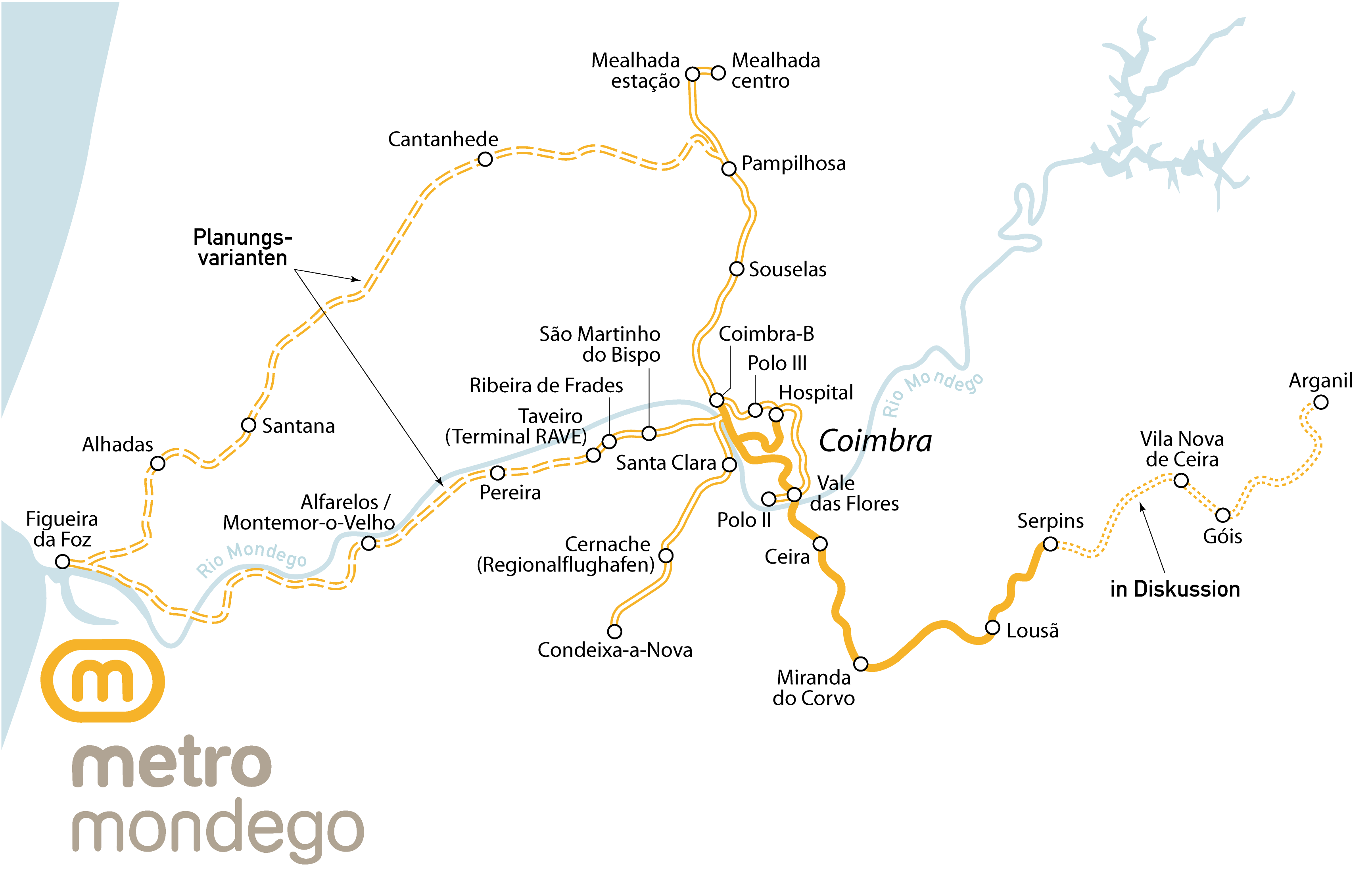 Extension Plannings of the Metro Mondego